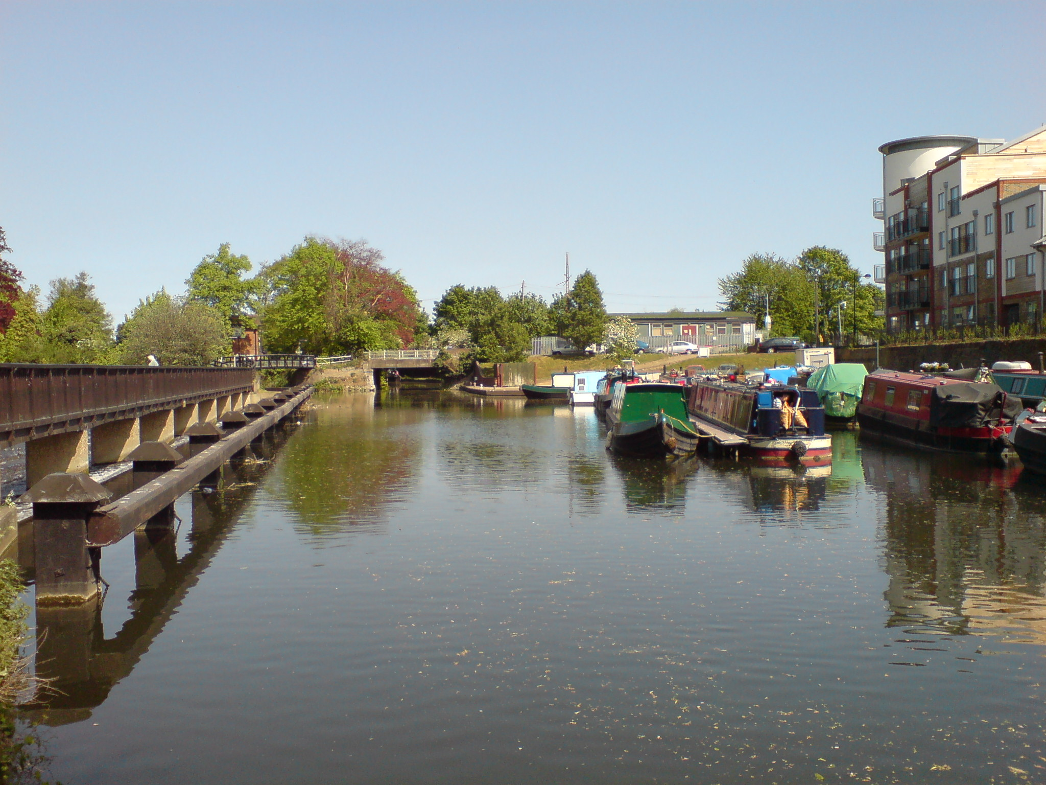 I took this photo at 14:10, on 30 April 2007. Jamsta 20:50, 25 March 2007 (UTC)